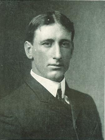 Photograph of Jerry Delaney